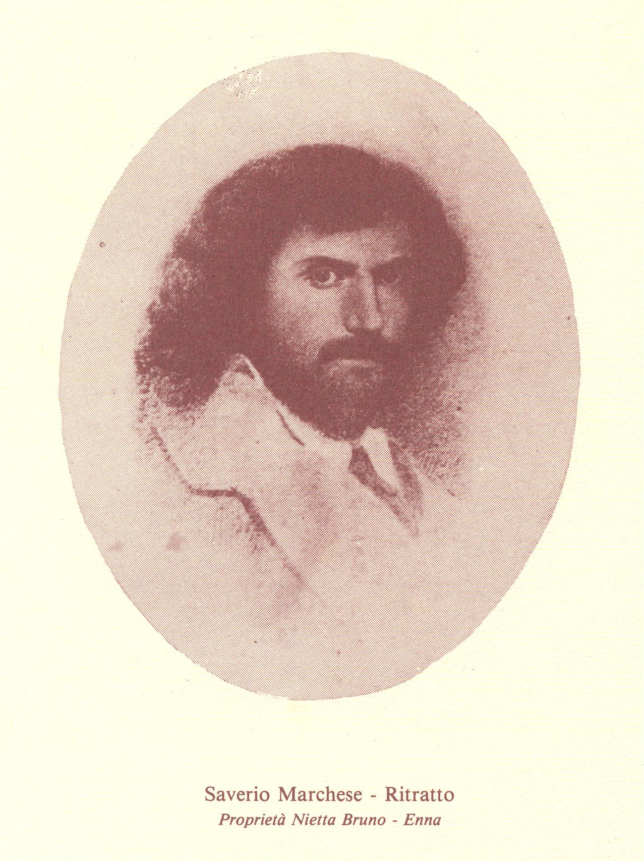 Probabily Saverio Marchese